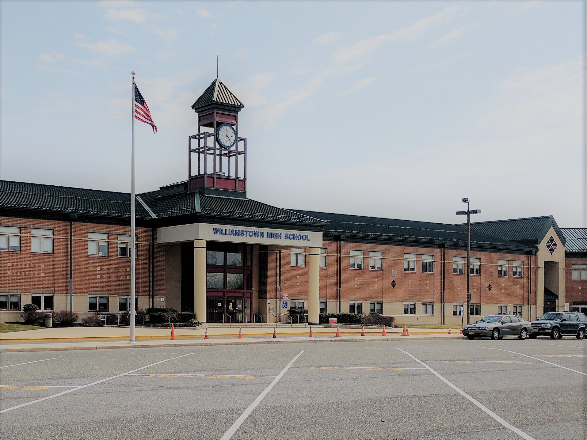 The front Entrance of Williamstown High School in New Jersey, US.